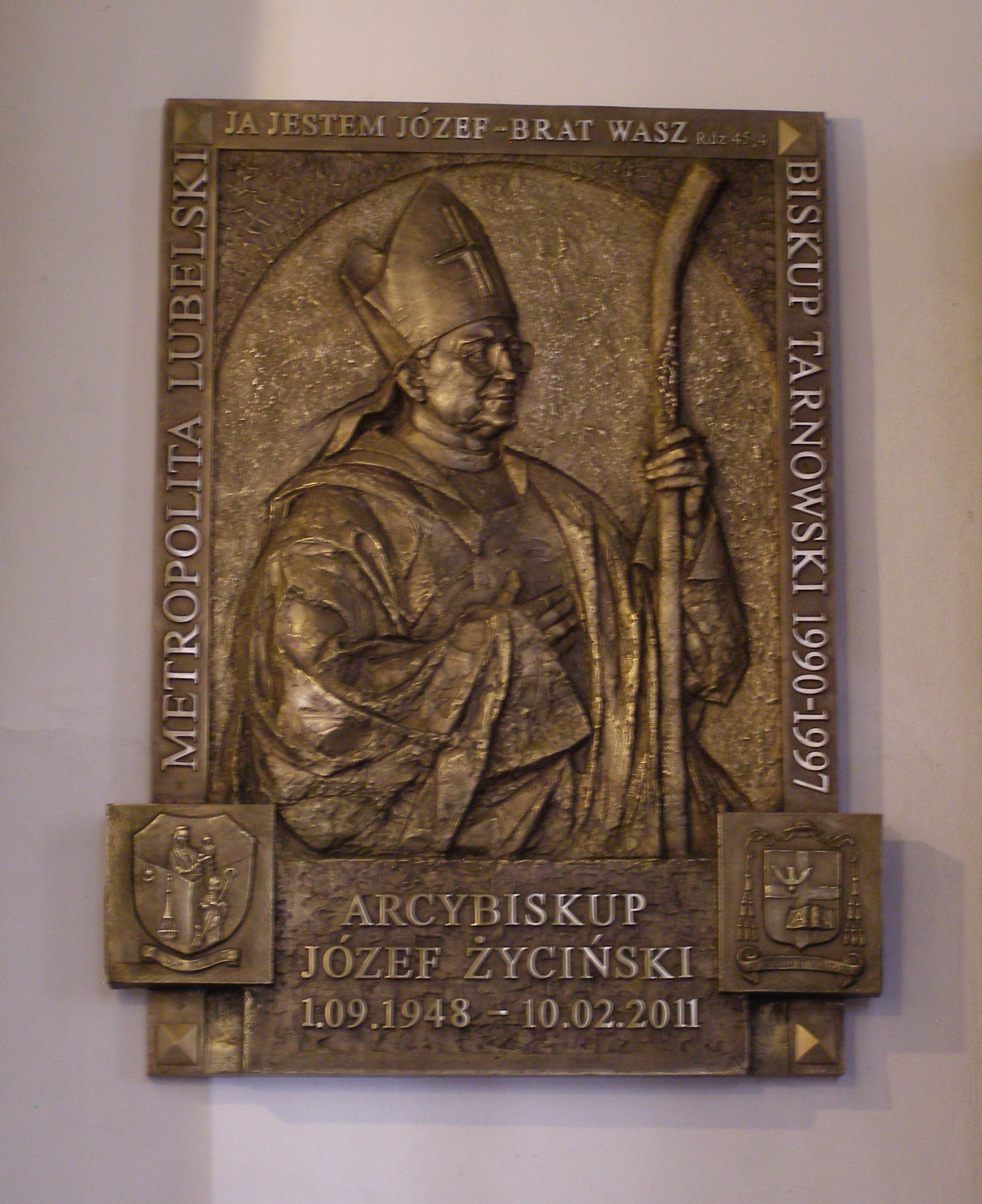 Tarnów - plaque commemorating former bishop of Tarnów Józef Życiński in the cathedral